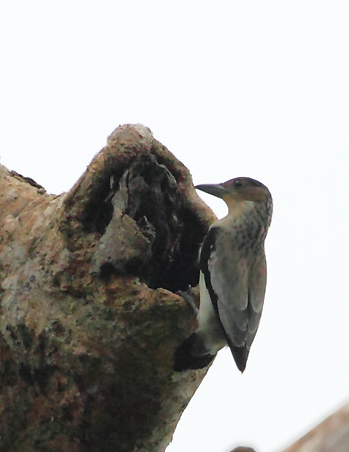 Black-crowned Tityra (female) at Restinga de Bertioga state park - SP - Brazil